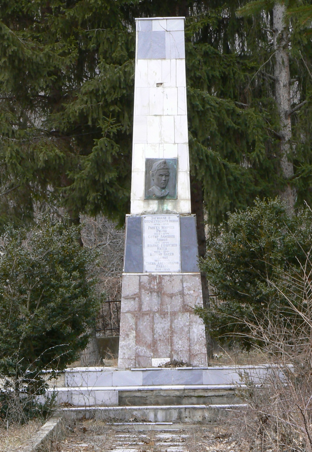 Monument of the war casualties in village Golema Fucha, Bulgaria